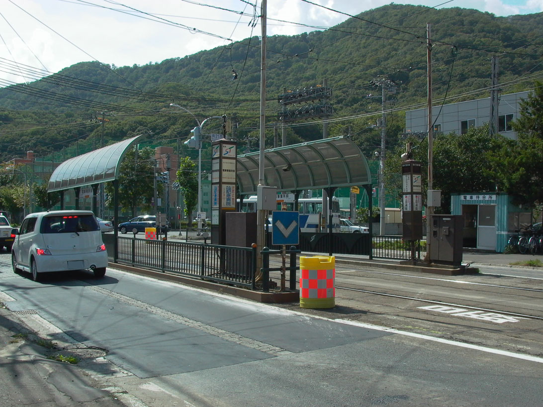 Denshajigyosho-mae station Sapporo, Hokkaido, Japan